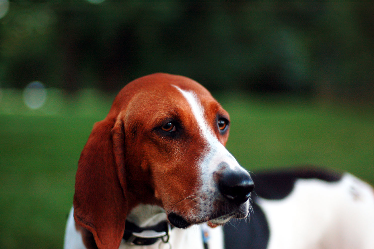 Treeing Walker Coonhound